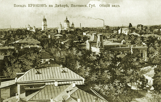 Postcards of old Kremenchuk. Посад Крюків.